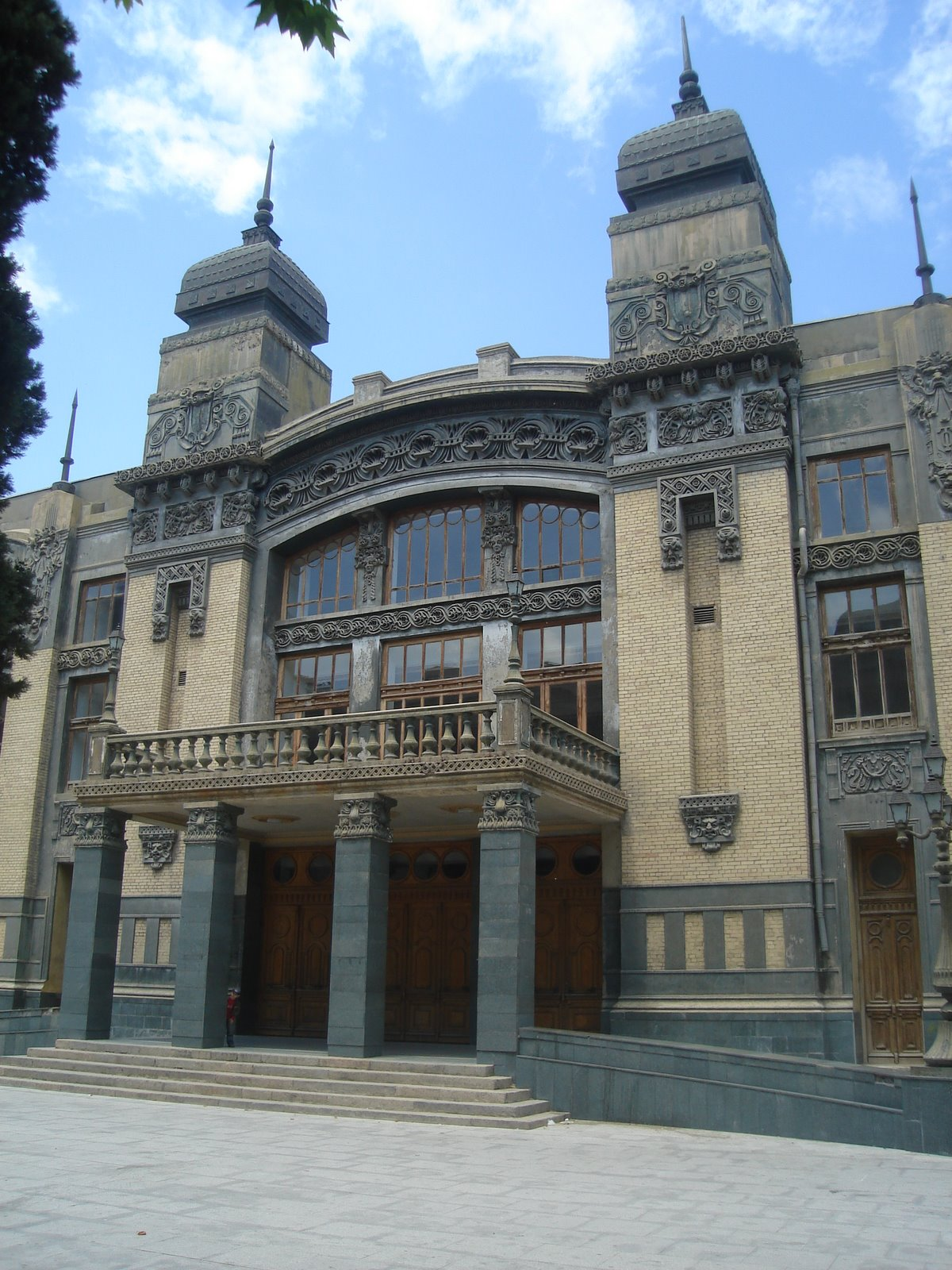 Azerbaijan State Opera and Balet Theatre in Downtown Baku.